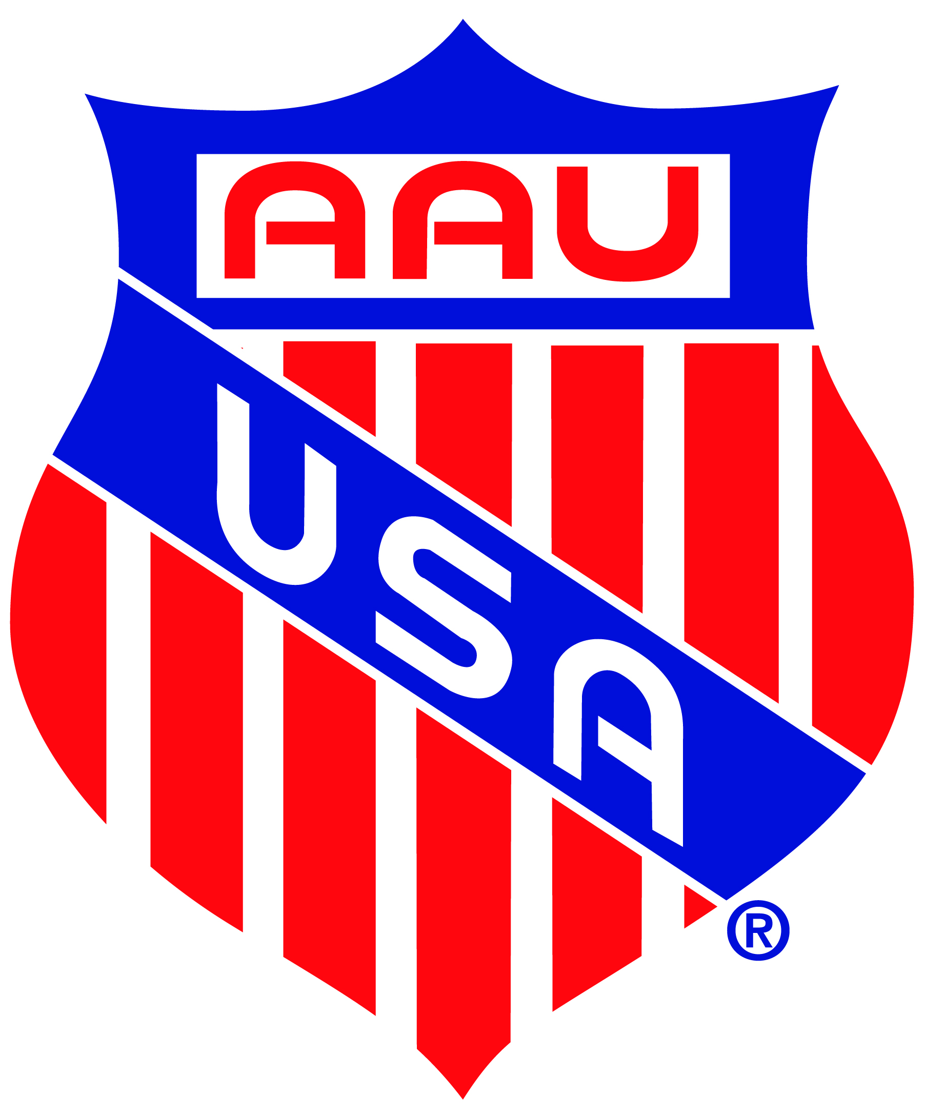 The Amateur Athletic Union logo